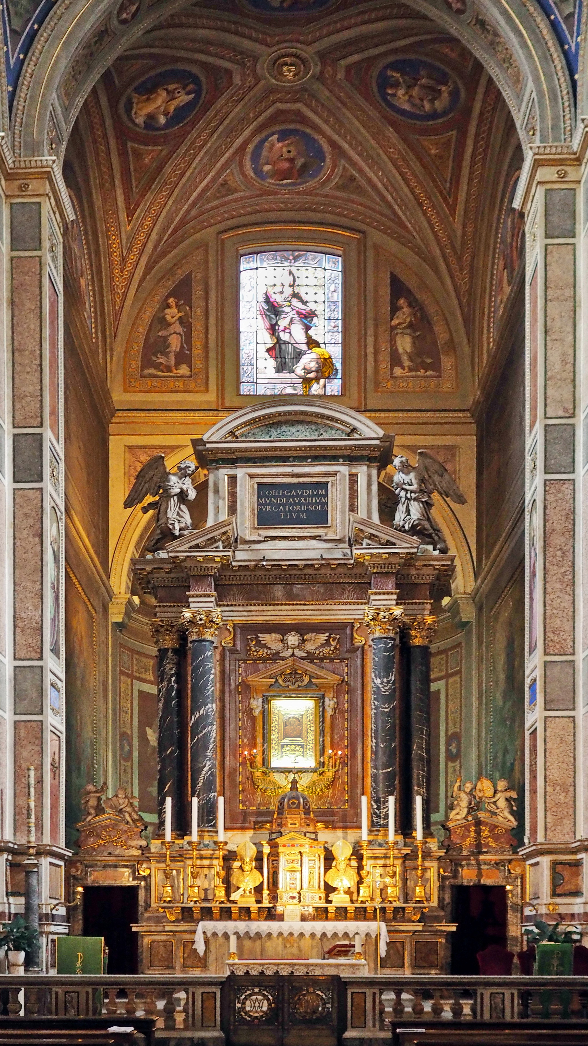 Sant Agostino (Rome); Altar